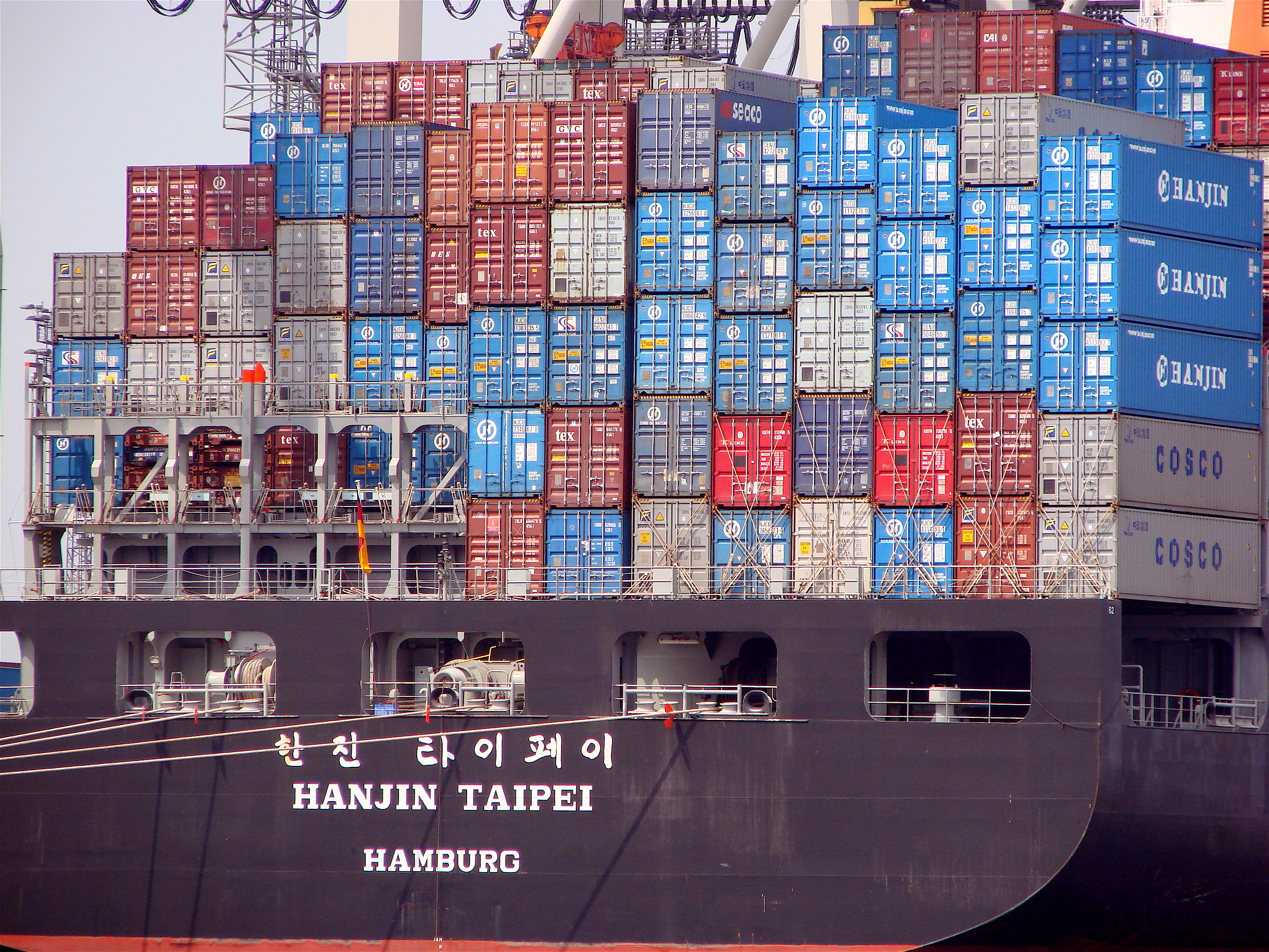 Container ship HANJIN TAIPEI at Port of Hamburg, Jun 2006.